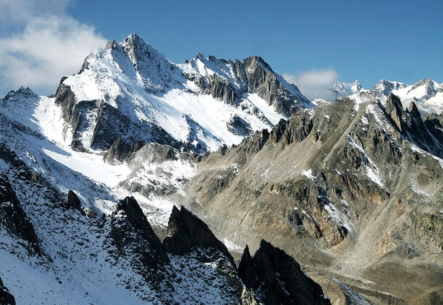 Pizzo Gallina from north (Valais, Ticino)